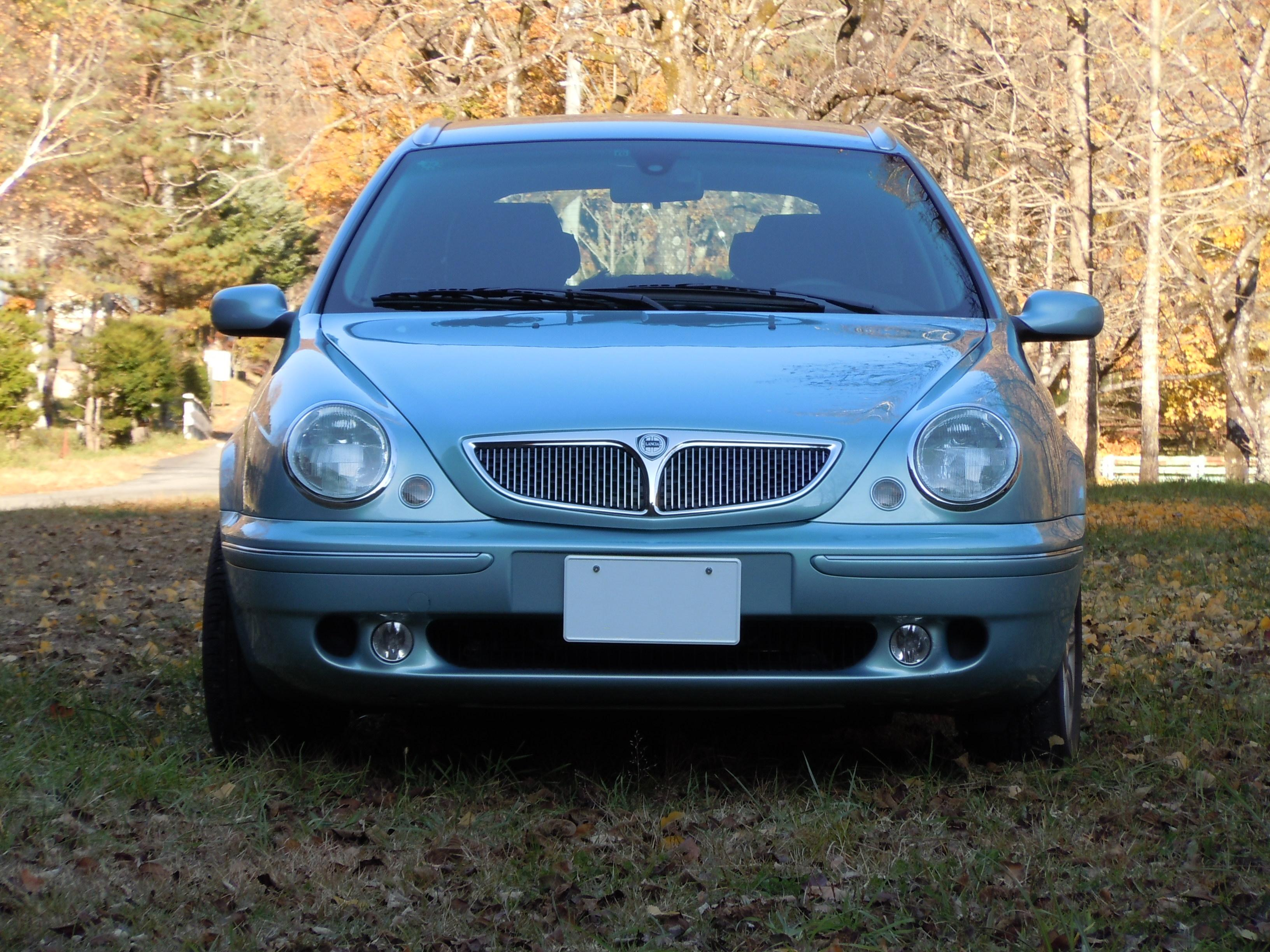 Lancia Lybra